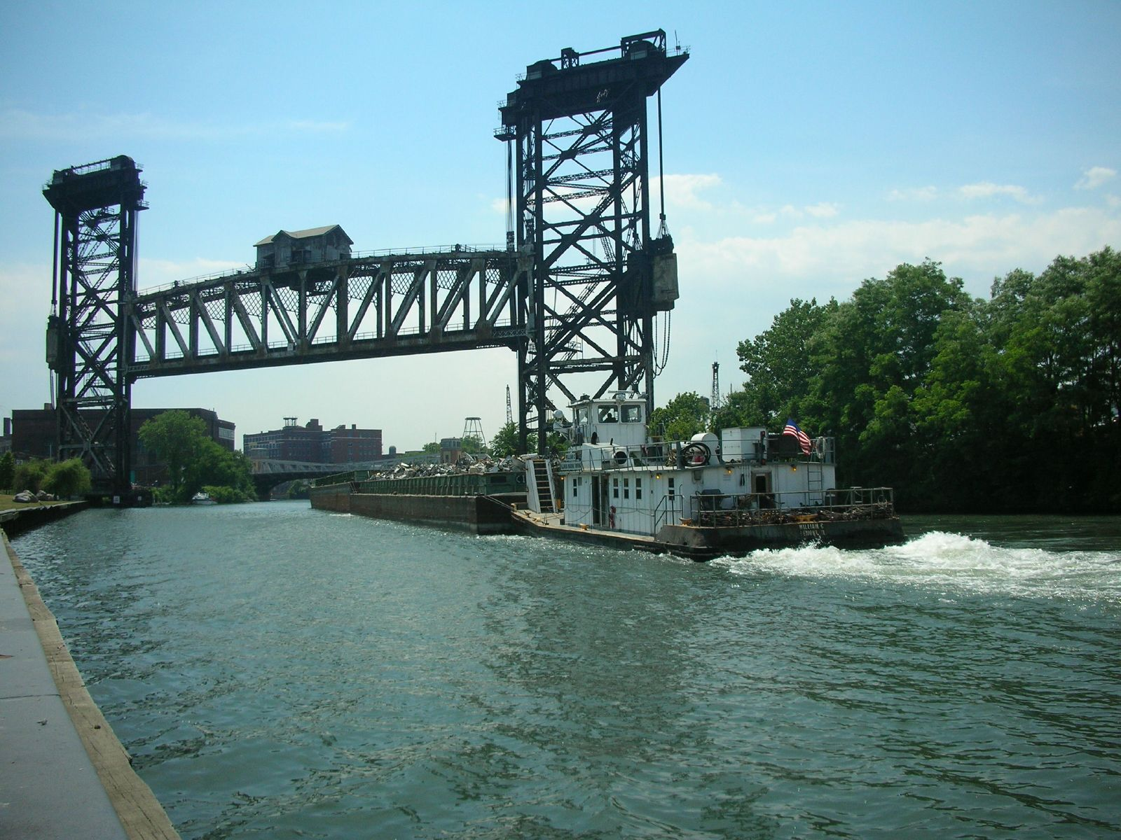 Cermak Bridge Barge Passageway. Canal Street Bridge in foreground, Cermak Bridge in background.